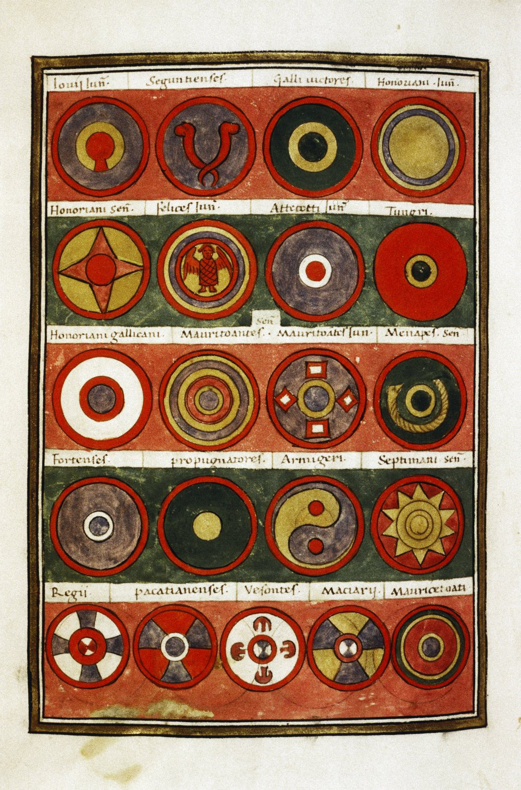 Magister Peditum (Insignia of the magister militum praesentalis.) page 4 from the Roman Notitia Dignitatum (5th century AD) 1° row 2° row 3° row 4° row 5° row